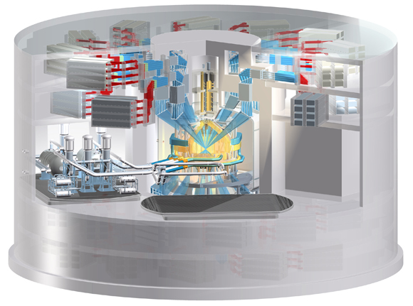 Image showing the arrangement of the later versions of the MEF or LIFE.1 power plant. The grey boxes arranged in groups at the top and bottom (just visible, shaded) are the laser beam-in-a-box systems. Their light, in blue, shines through the optical system into the yellow colored target chamber in the center. The machinery on the left pumps liquid lithium or flibe into the target chamber walls to cool the reactor, extract energy for generation, and produce tritium.